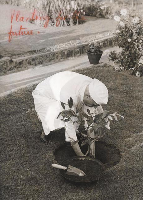 Jawaharlal Nehru planting a tree, Aarey Milk Colony, Bombay, 4 March 1951